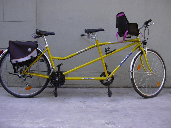 Tandem. Picture by Paolo Carboni (myself).